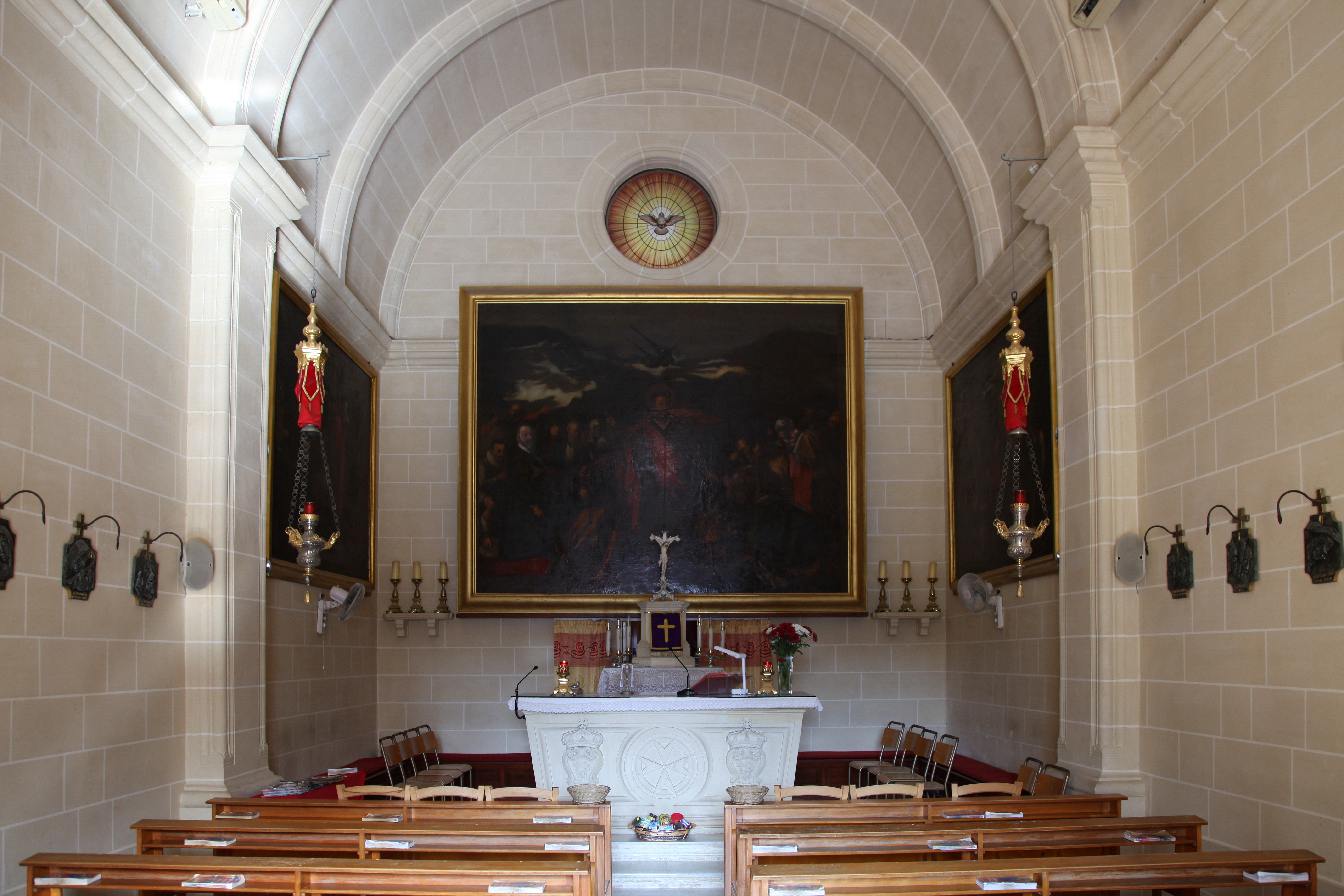 Shipwreck Church, Dawret il-Gżejjer/Triq il-Knisja in St. Paul's Bay, Malta